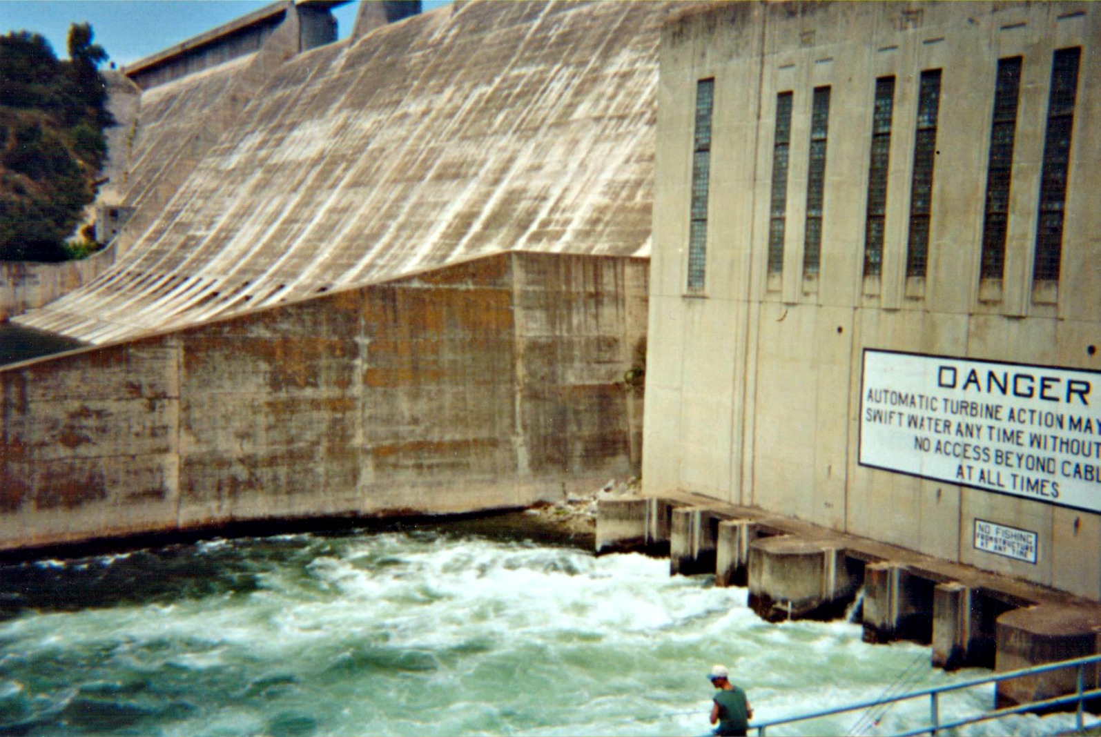 Tailrace fishing at Mansfield Dam in Austin, Texas on the Colorado River. Access to this area is now unfortunately restricted.